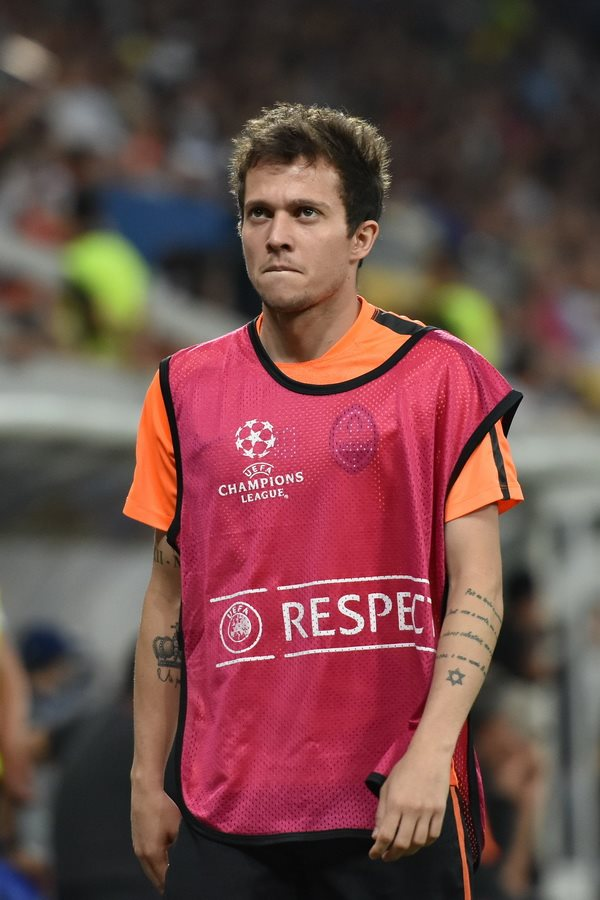 Bernard Anício Caldeira Duarte